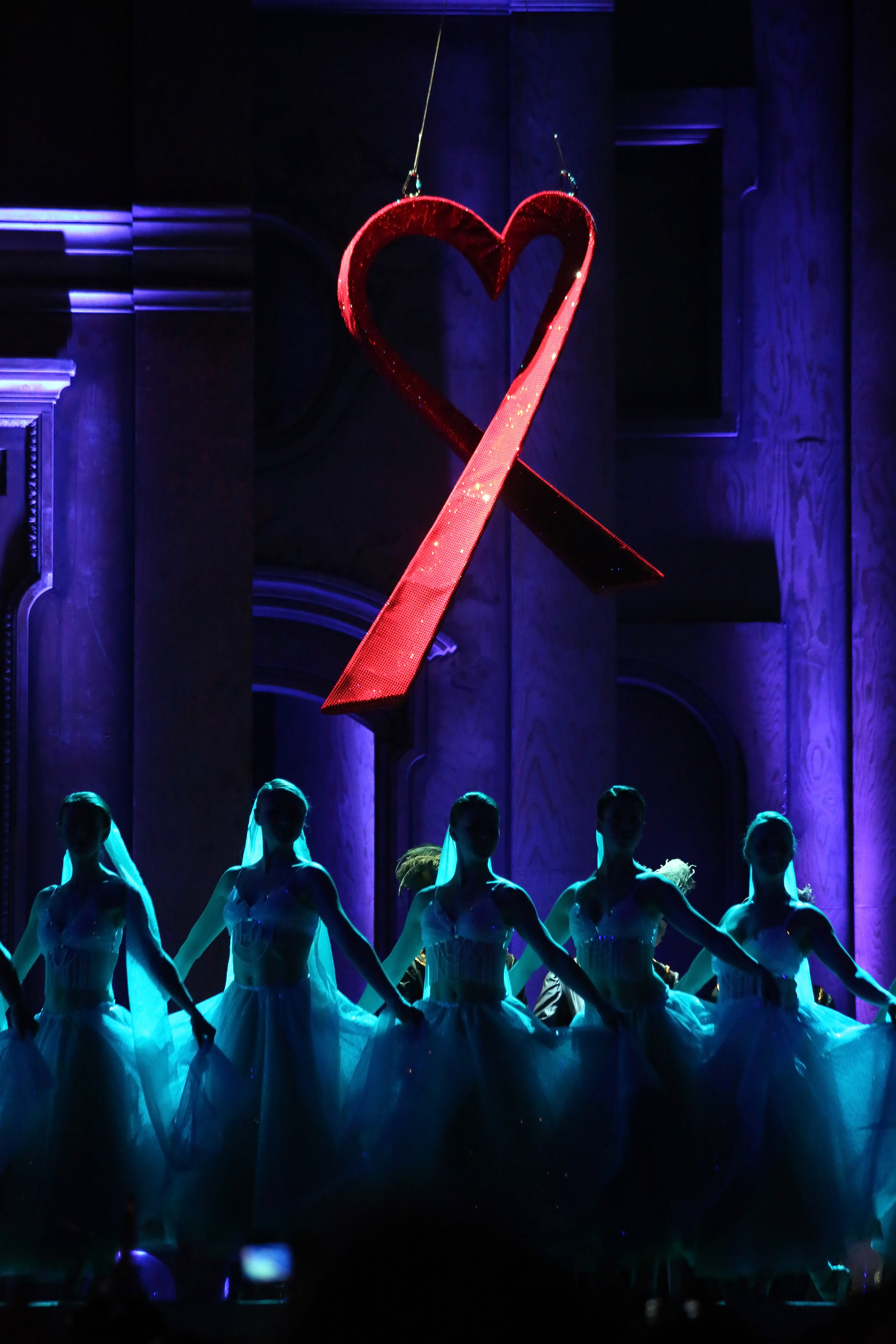 Presenting the Crystal of Hope Award for The Girl Effect, opening show of Life Ball 2013 at the city hall of Vienna, Vienna, Austria.